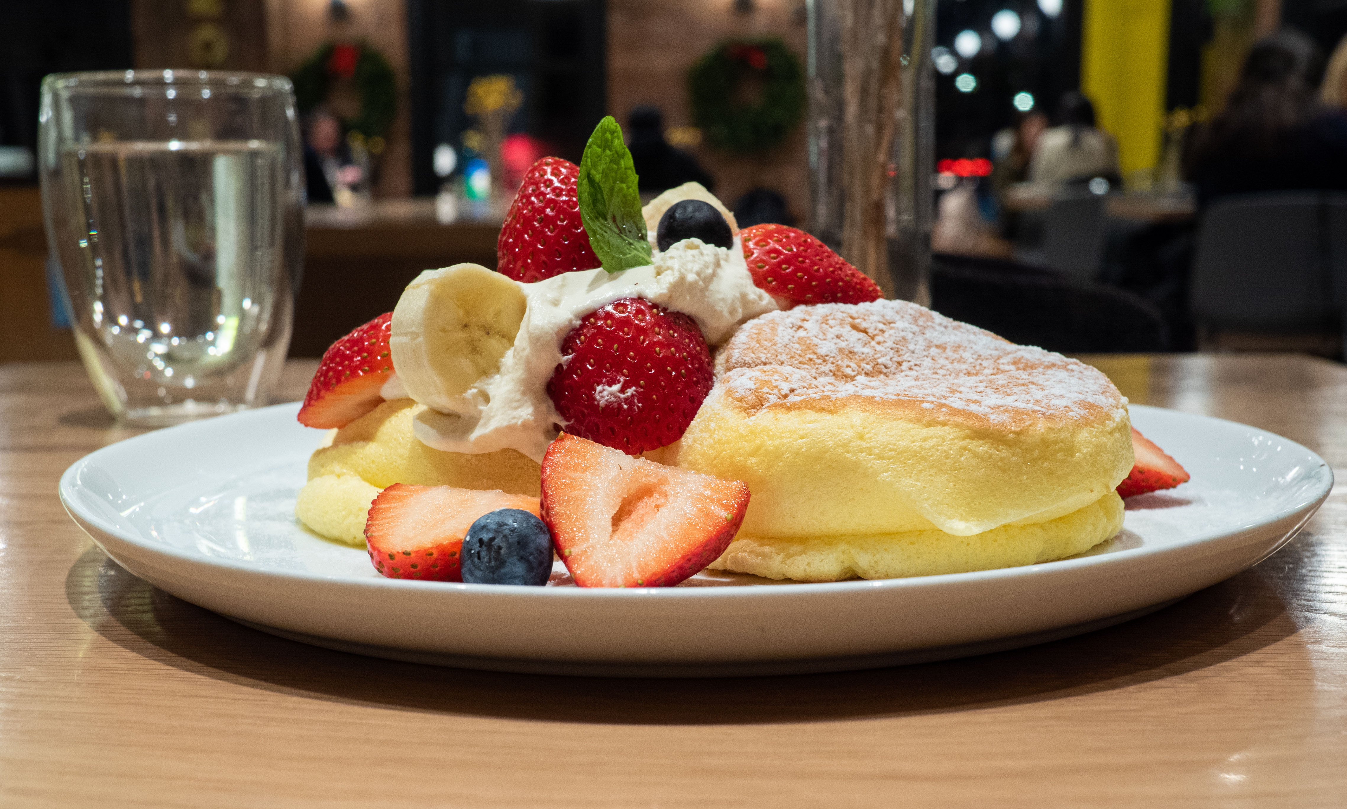 Japanese style souffle pancakes with fruit and whipped cream from Flipper's in New York City